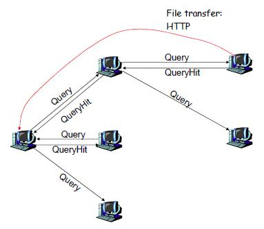 This image is taken from a lecture given in an academic course (ACNS course, IDC, Spring 07') by Danny Bickson.